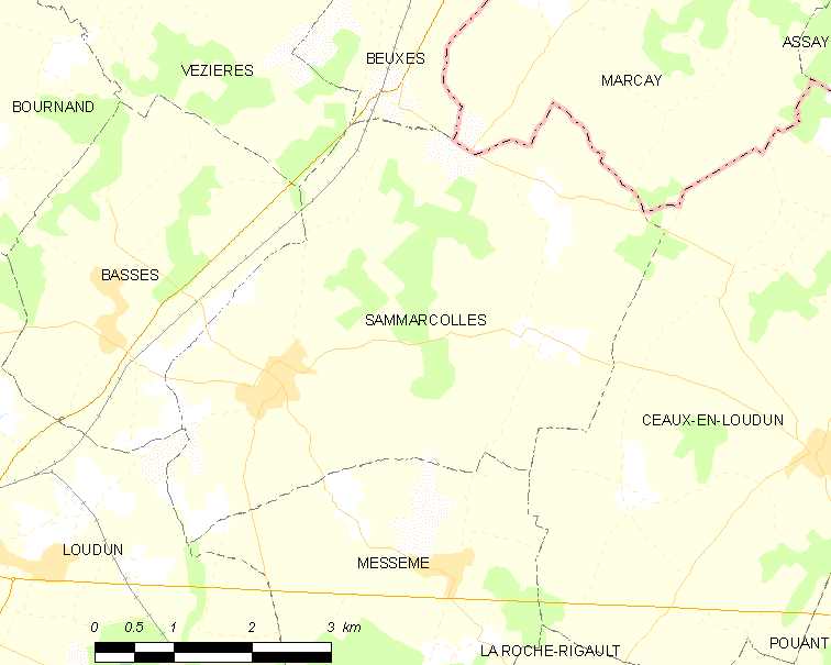 Map of French municipality Sammarçolles